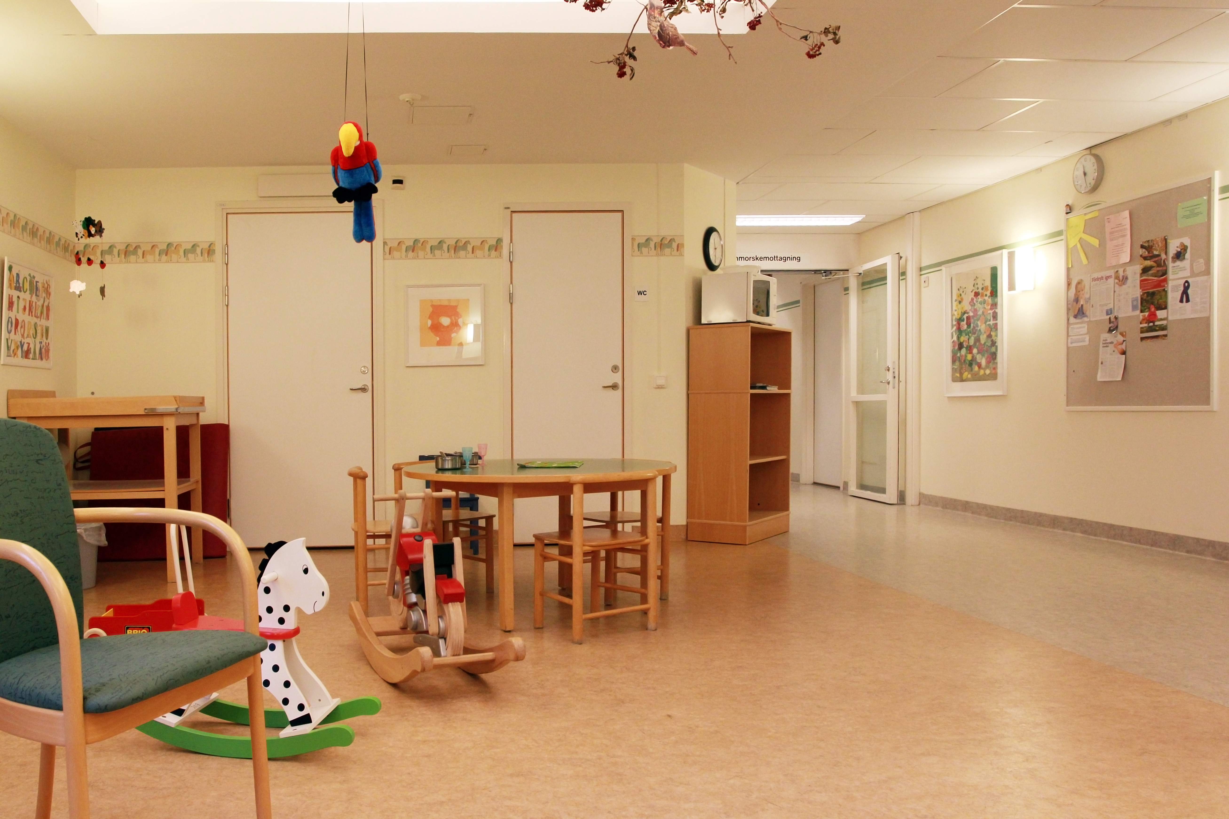 Waiting room for the children's health care part of the public health care centre, Hedemora, Dalarna, Sweden